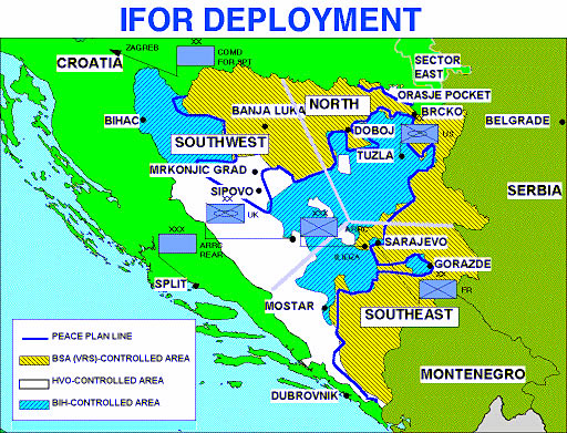 Impementation Forces (IFOR) Deployment Map into and around Bosnia-Herzegovina and Croatia. Exact Date Shot Unknown